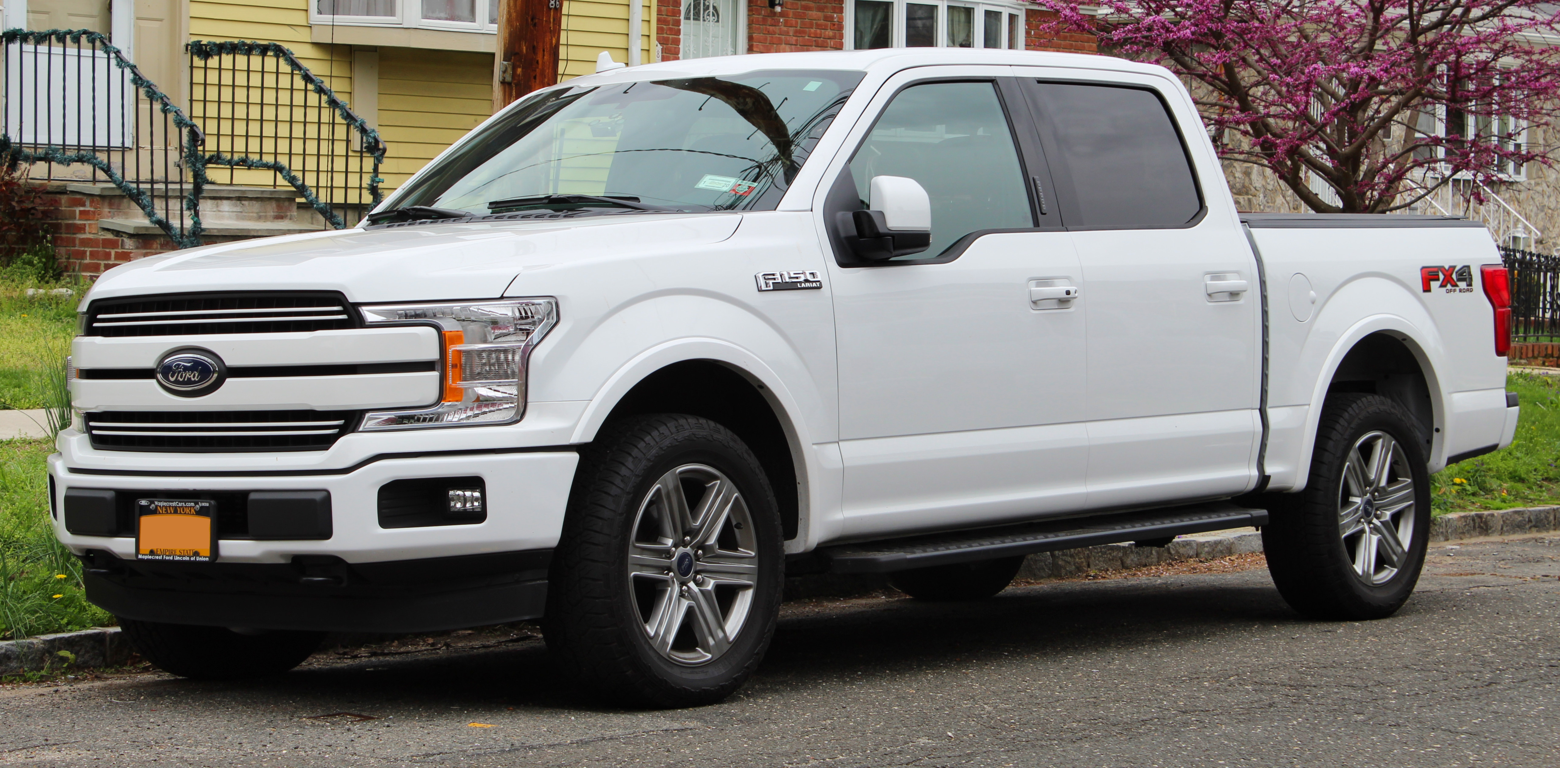 A 2018 Ford F-150 Lariat photographed in Bayside, Queens, New York, USA